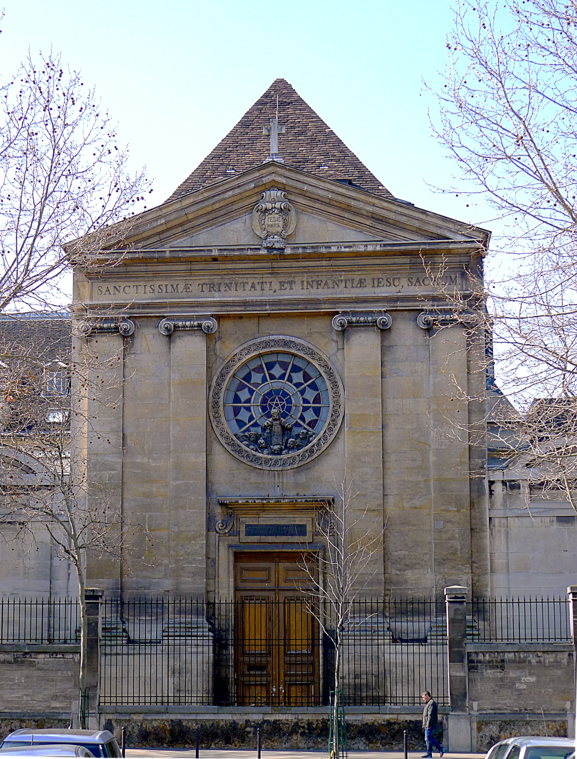 Trinity Chapel at Saint-Vincent-de-Paul Hospital, Paris. The chapel was designed by French architect Daniel Gittard in 1655, when it was part of the Institution de l'Oratoire.